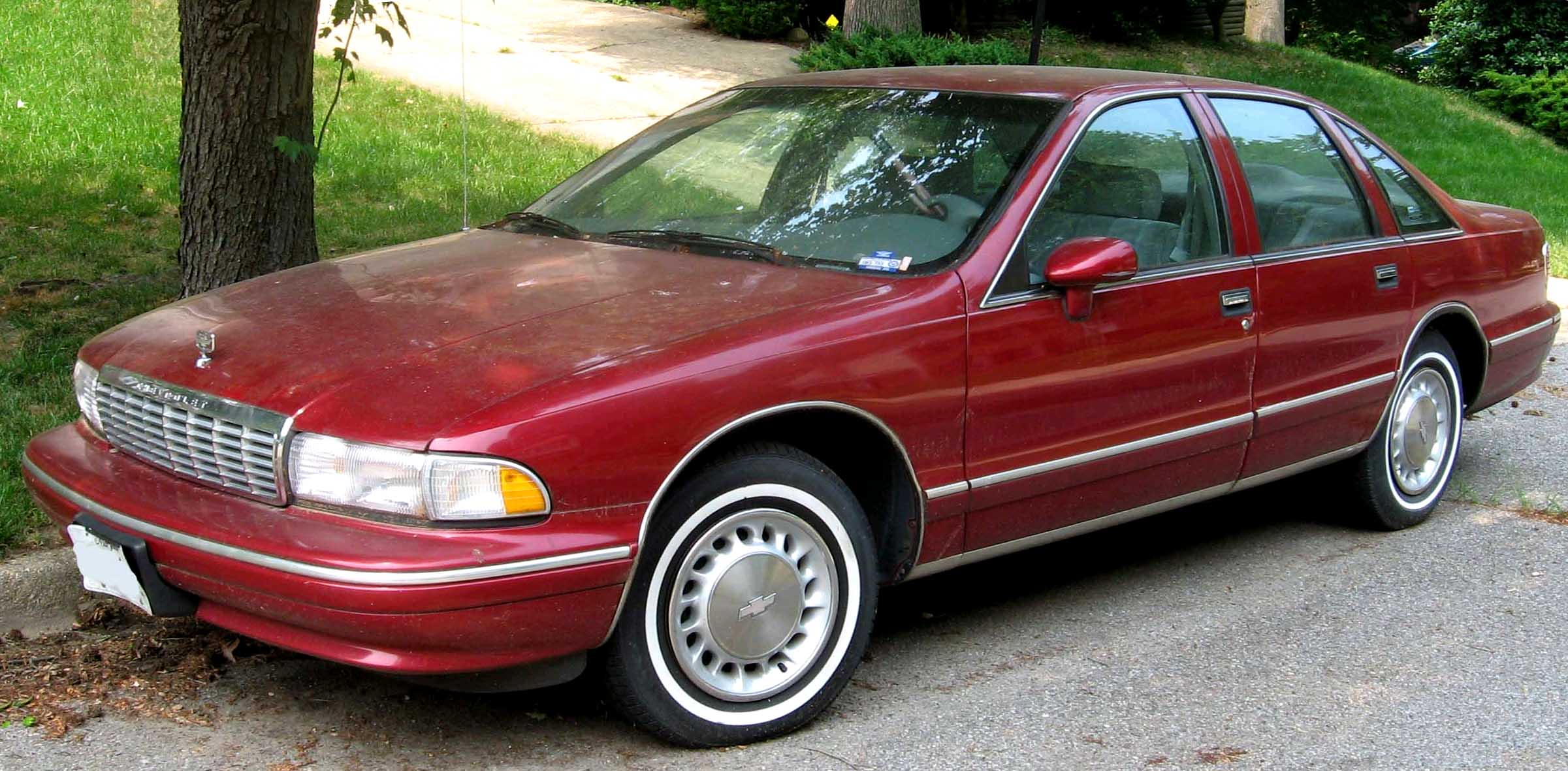 1994 Chevrolet Caprice photographed in Fort Washington, Maryland, USA.